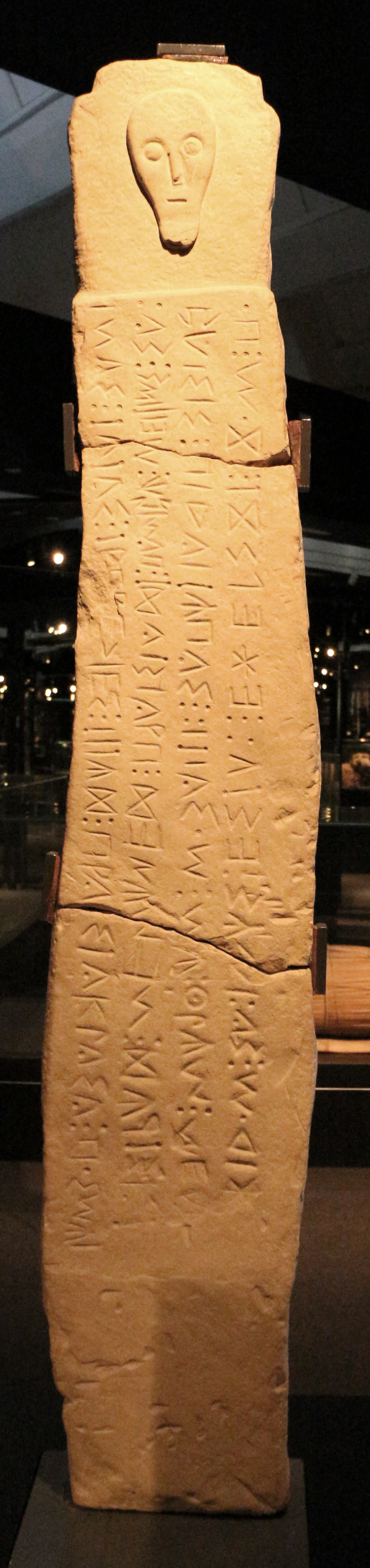 Neo Preistoria exhibition (Milan 2016)